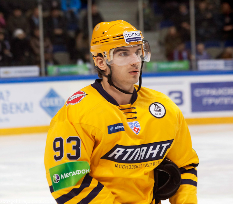 Atlant Moscow Oblast player Nikolai Zherdev in a KHL game on 29 November 2011 against Amur Khabarovsk